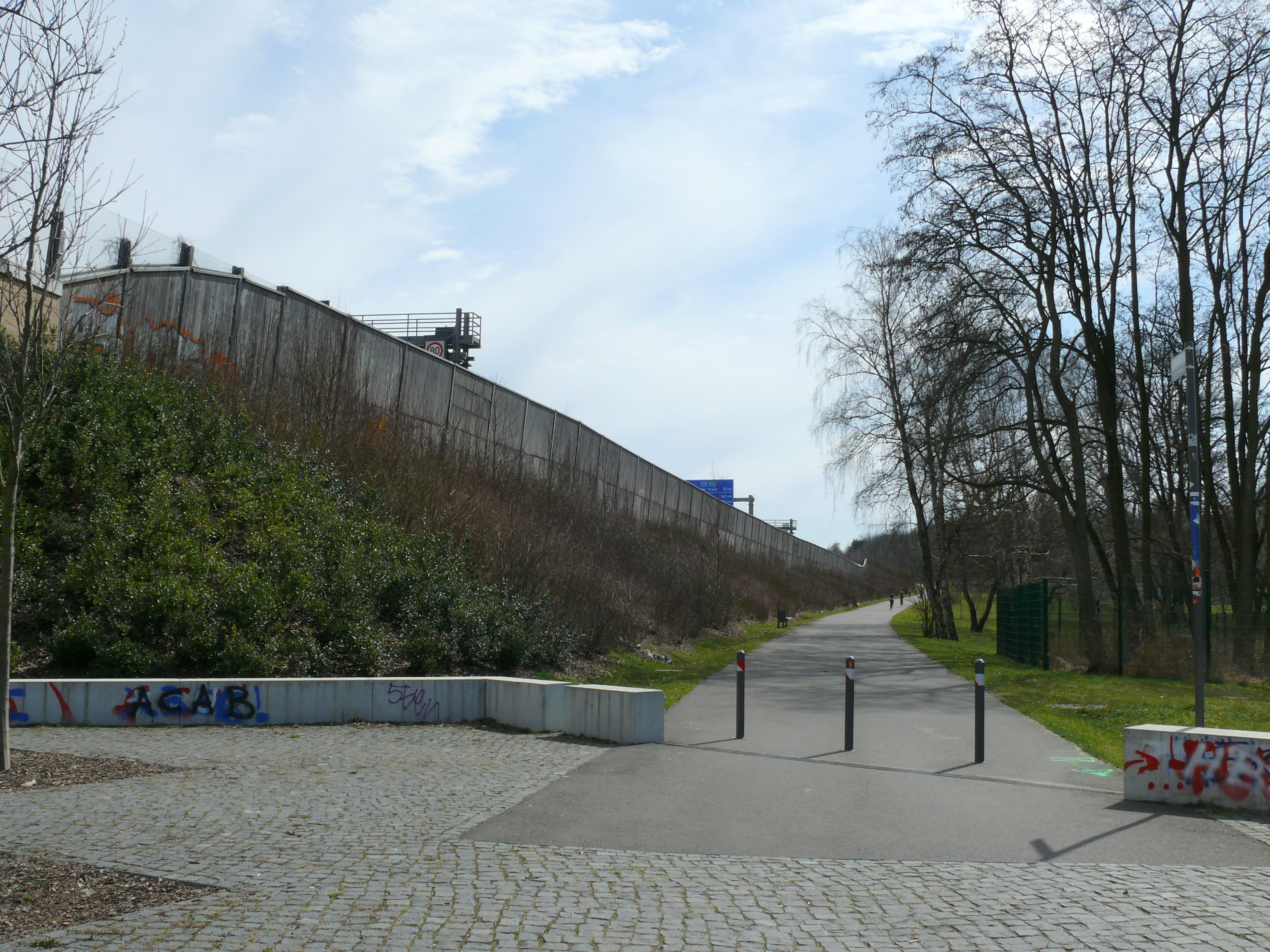 Berlin-Altglienicke Rudower Straße Mauerweg